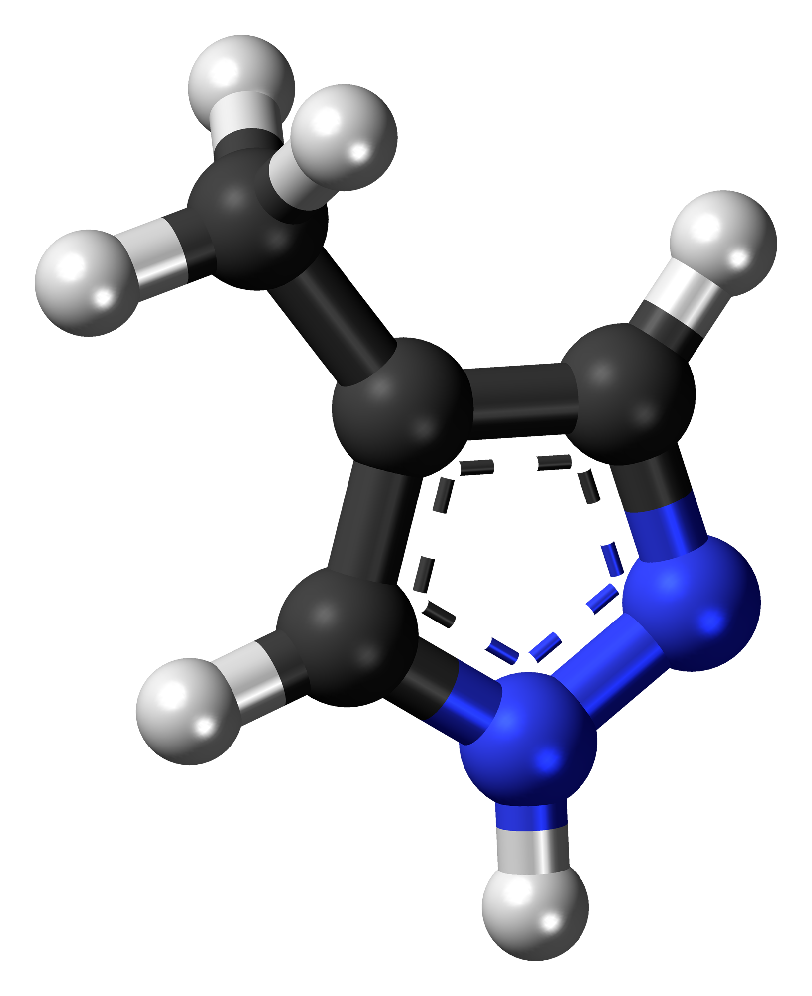 Ball-and-stick model of the fomepizole molecule, an antidote for methanol poisoning. Colour code: Carbon, C: black Hydrogen, H: white Nitrogen, N: blue